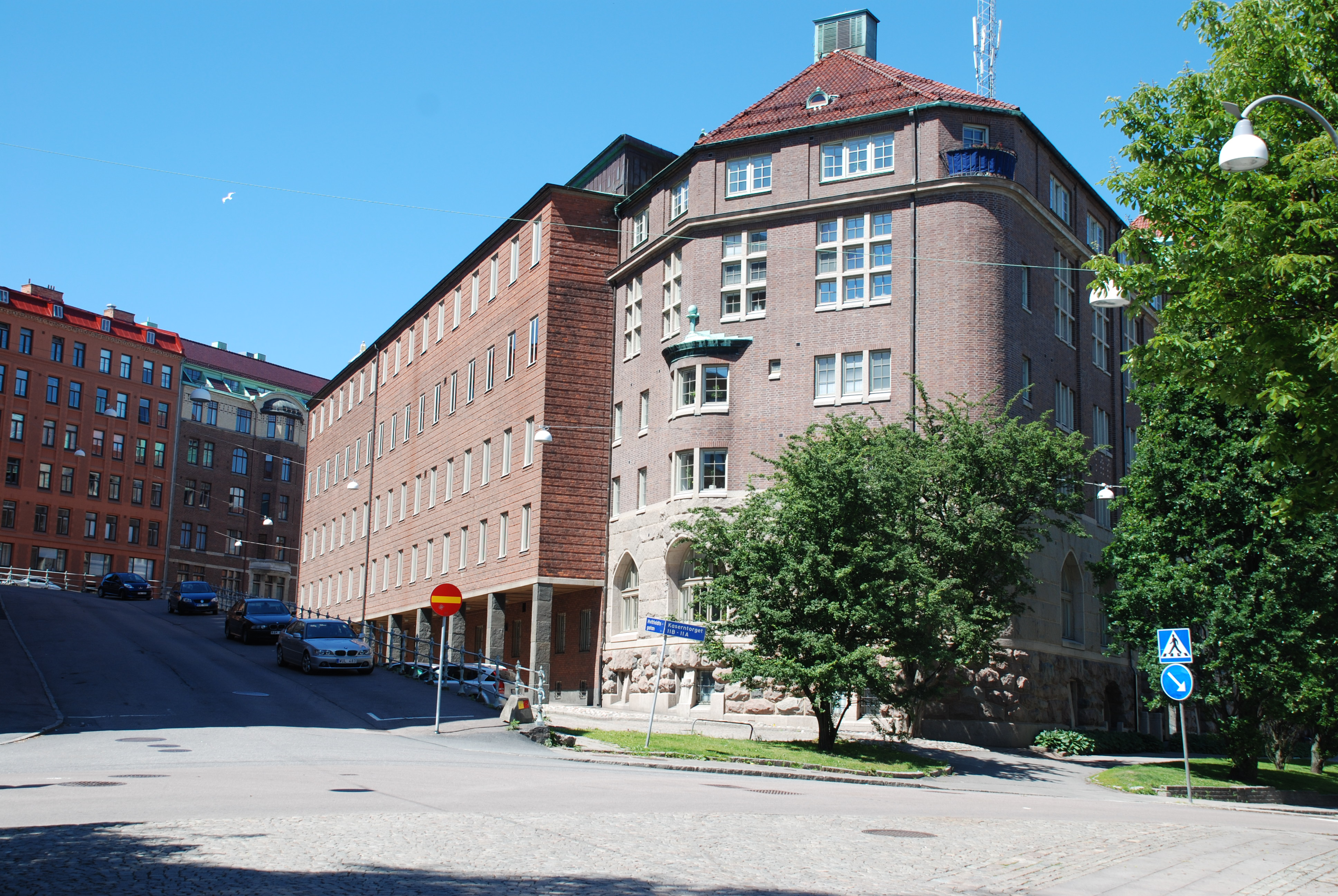 Hvitfeldtsgatan/Kaserntorget in city part Inom Vallgraven in Göteborg.